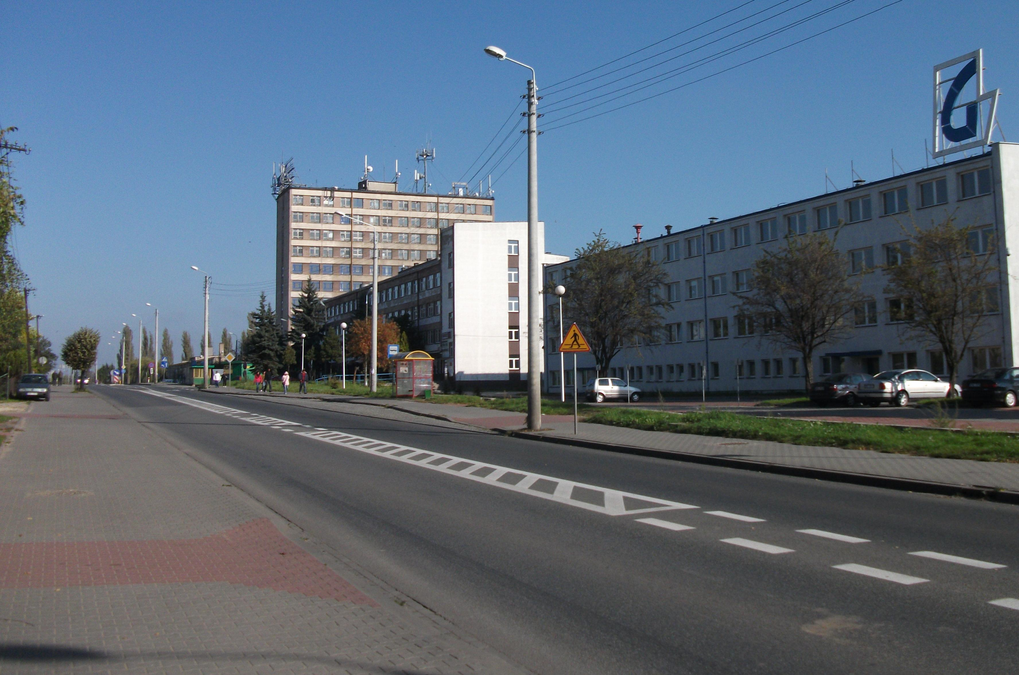 Sieradzka Street in Wieluń (National Road 45)